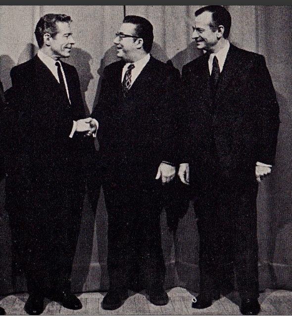 Marcel Ruby avec Jean-Jacques Servan Schreiber (gauche) et Jean Lecanuet (droite), en 1973, au congrès du Mouvement Réformateur, alliance centriste des Radicaux valoisiens et du Centre démocrate, composante de l'UDF, à partir de 1978.